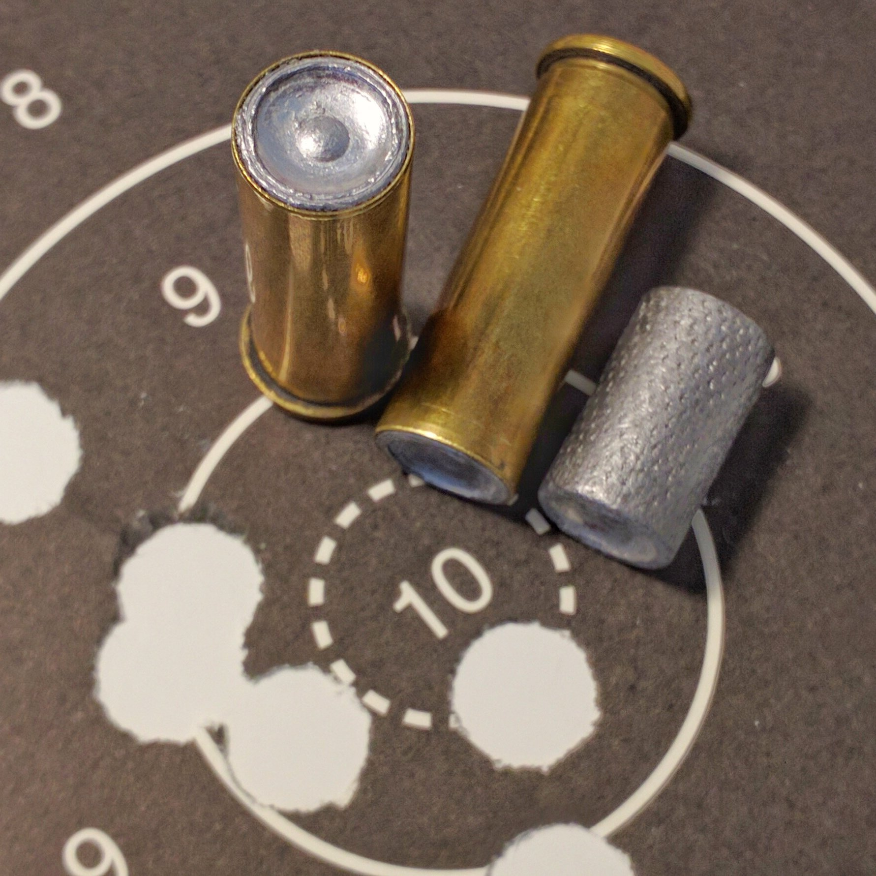 38 special wadcutters with the bullet loaded flush with the case mouth. On the right is an unloaded 148 grain hollow-base wadcutter bullet to show its relative size to the case. The target under shows the typical clean round holes cut by wadcutters.